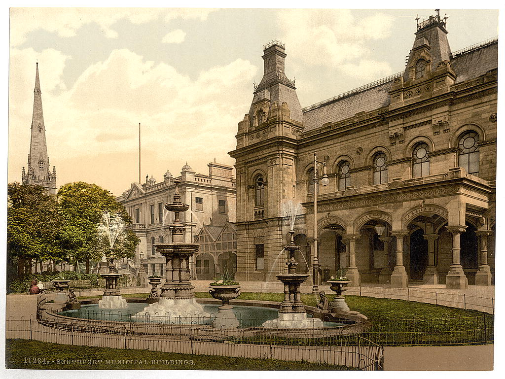 [Municipal buildings, Southport, England] [between ca. 1890 and ca. 1900]. 1 photomechanical print : photochrom, color. Notes: Title from the Detroit Publishing Co., Catalogue J--foreign section, Detroit, Mich. : Detroit Publishing Company, 1905. Print no. "11284". Forms part of: Views of the British Isles, in the Photochrom print collection. Subjects: England--Southport. Format: Photochrom prints--Color--1890-1900. Repository: Library of Congress, Prints and Photographs Division, Washington, D.C. 20540 USA, Part Of: Views of the British Isles (DLC) 2002696059 More information about the Photochrom Print Collection is available at Higher resolution image is available (Persistent URL): Call Number: LOT 13415, no. 875 [item]